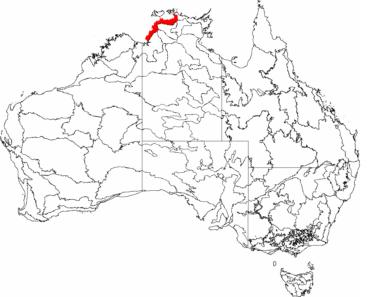 This is a map of the Interim Biogeographic Regionalisation of Australia (IBRA), with state boundaries overlaid. The Darwin Coastal region is shown in red.